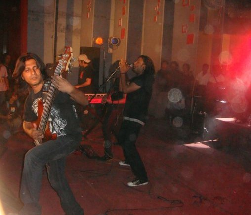 Warfaze Parforming on level completion'05